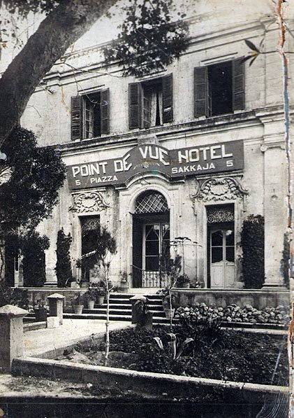 Hotel Point de Vue, Rabat, before Second world war